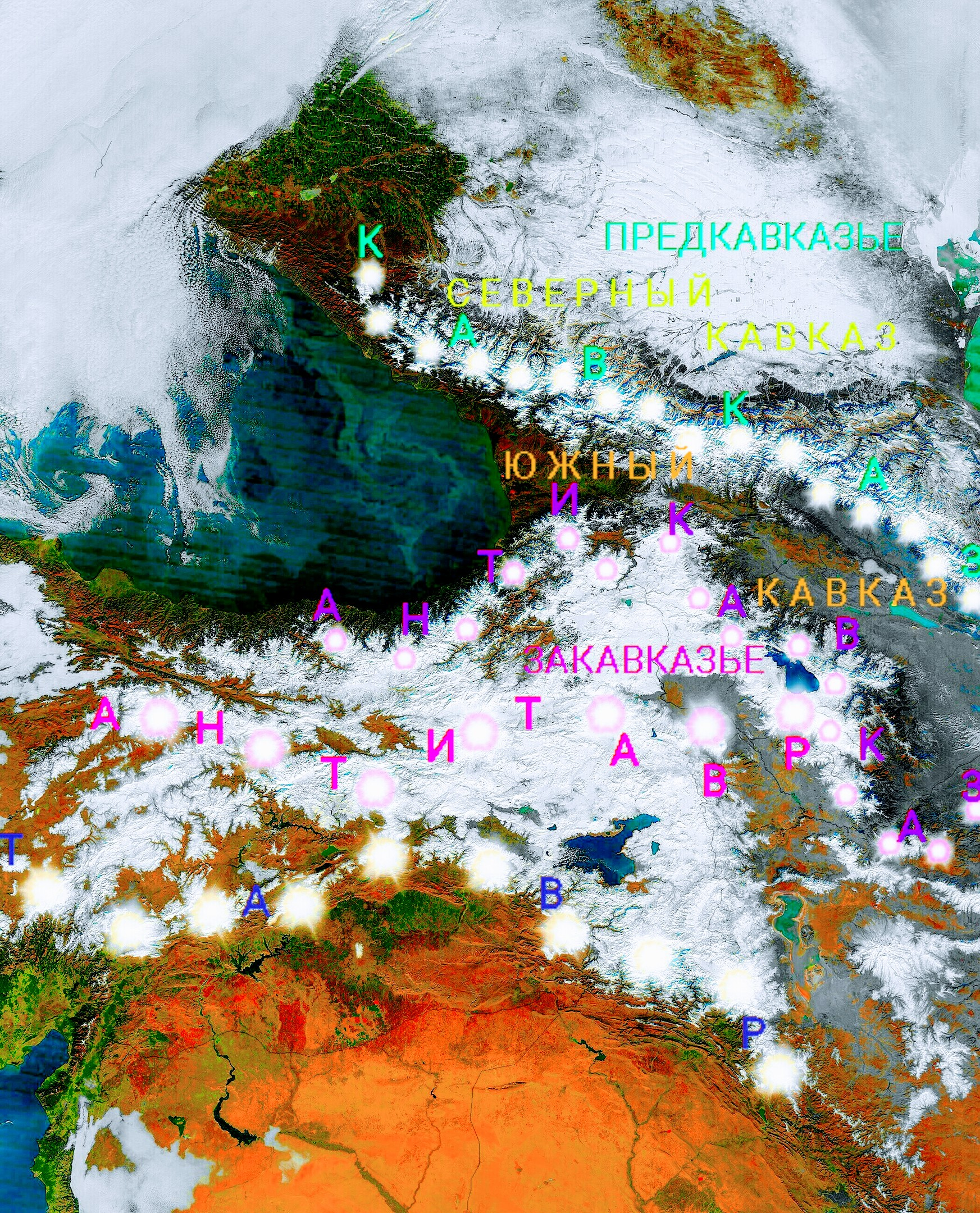 Caucasus Mountains, Armenian Highlands and Anatolian Plateau